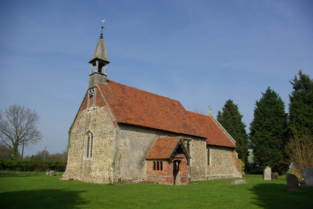 Mashbury Church - another angle